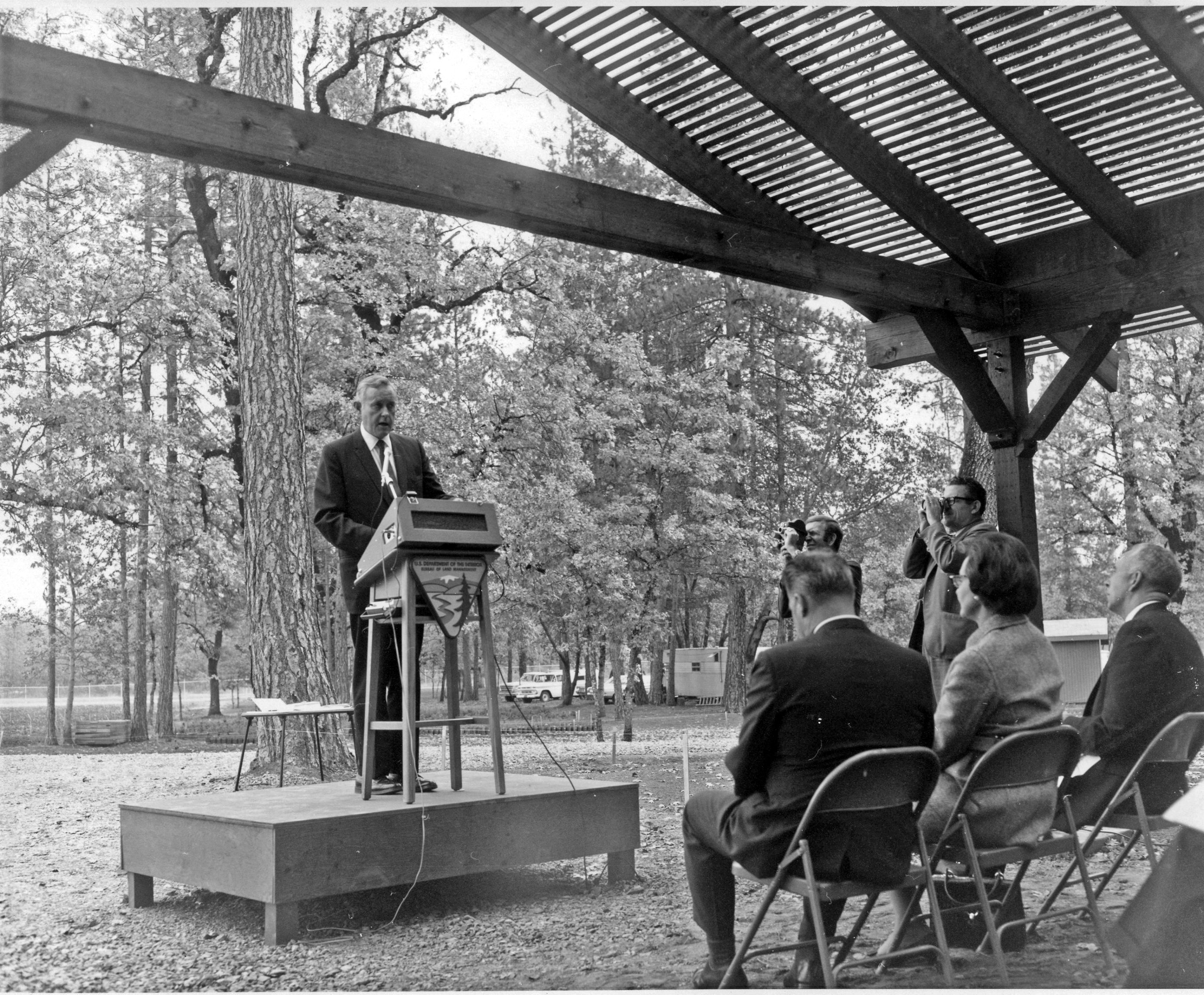 The Charles A. Sprague Tree Seed Orchard is located near Merlin, Oregon. Oregon Governor Tom McCall addresses the crowd at the dedication ceremony on 23 Oct. 1969. BLM Photo by Robert Hostetter.